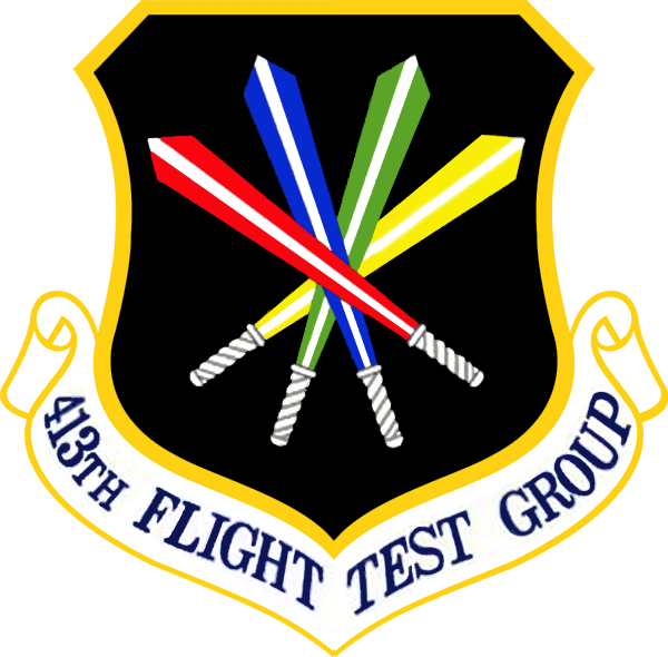 United States Air Force 413th Test Flight Group emblem. Made with Photoshop.